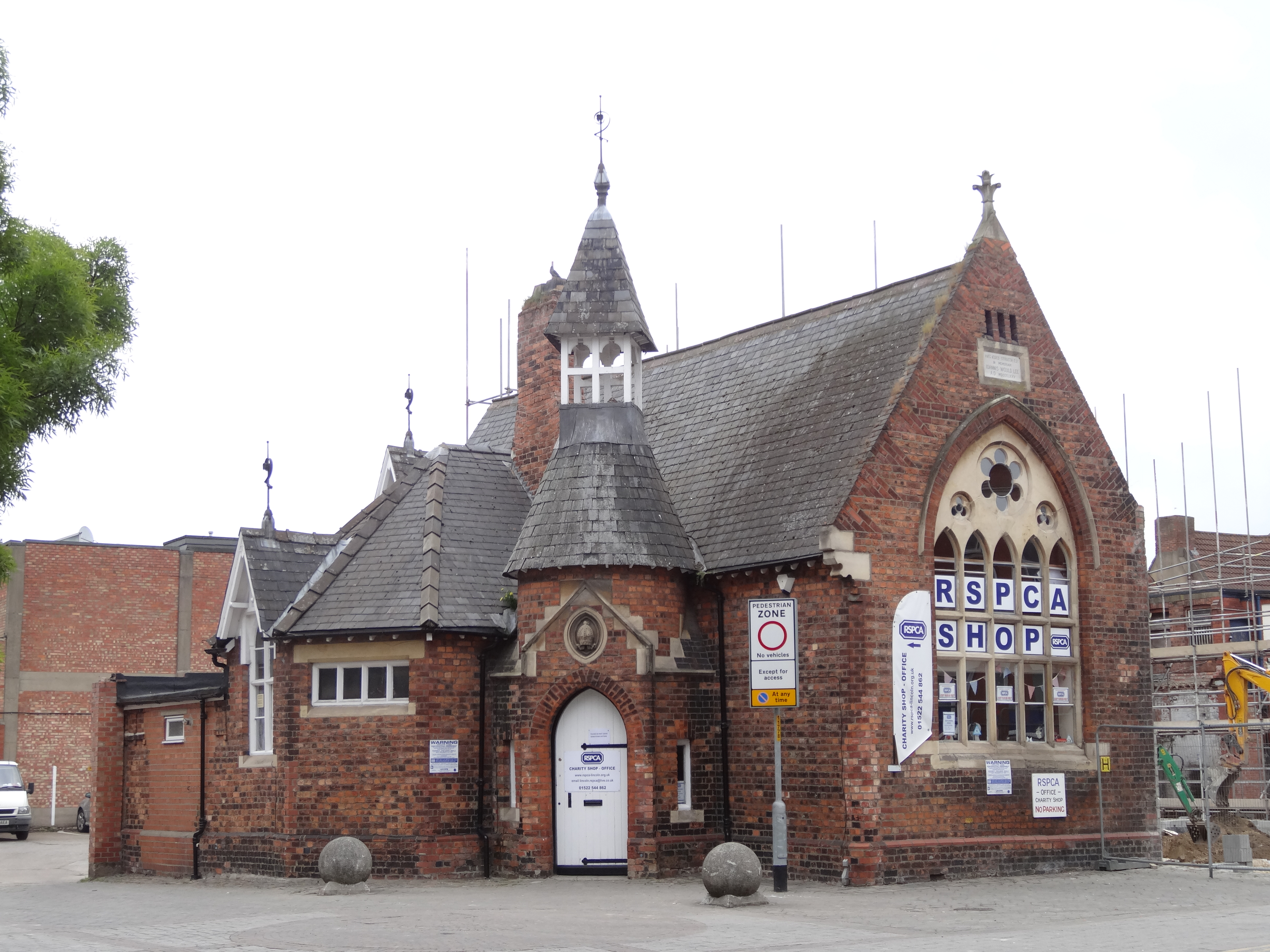 St Mark's church hall, Lincoln as of June 2013 an RSPCA shop